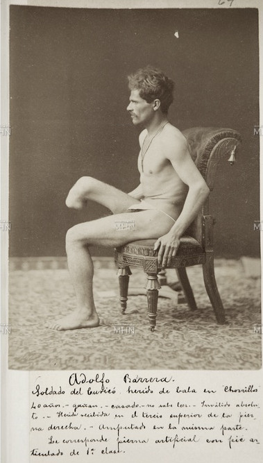 ADOLFO BARRERA Soldado de Curicò, herido de bala en Chorrillos. 40 años, gañàn, casado. Invàlido absoluto. Herida recibida en el tercio superior de la pierna derecha. Amputado en la misma parte. Le corresponde pierna artificial con pie articulado de 1ª clase.